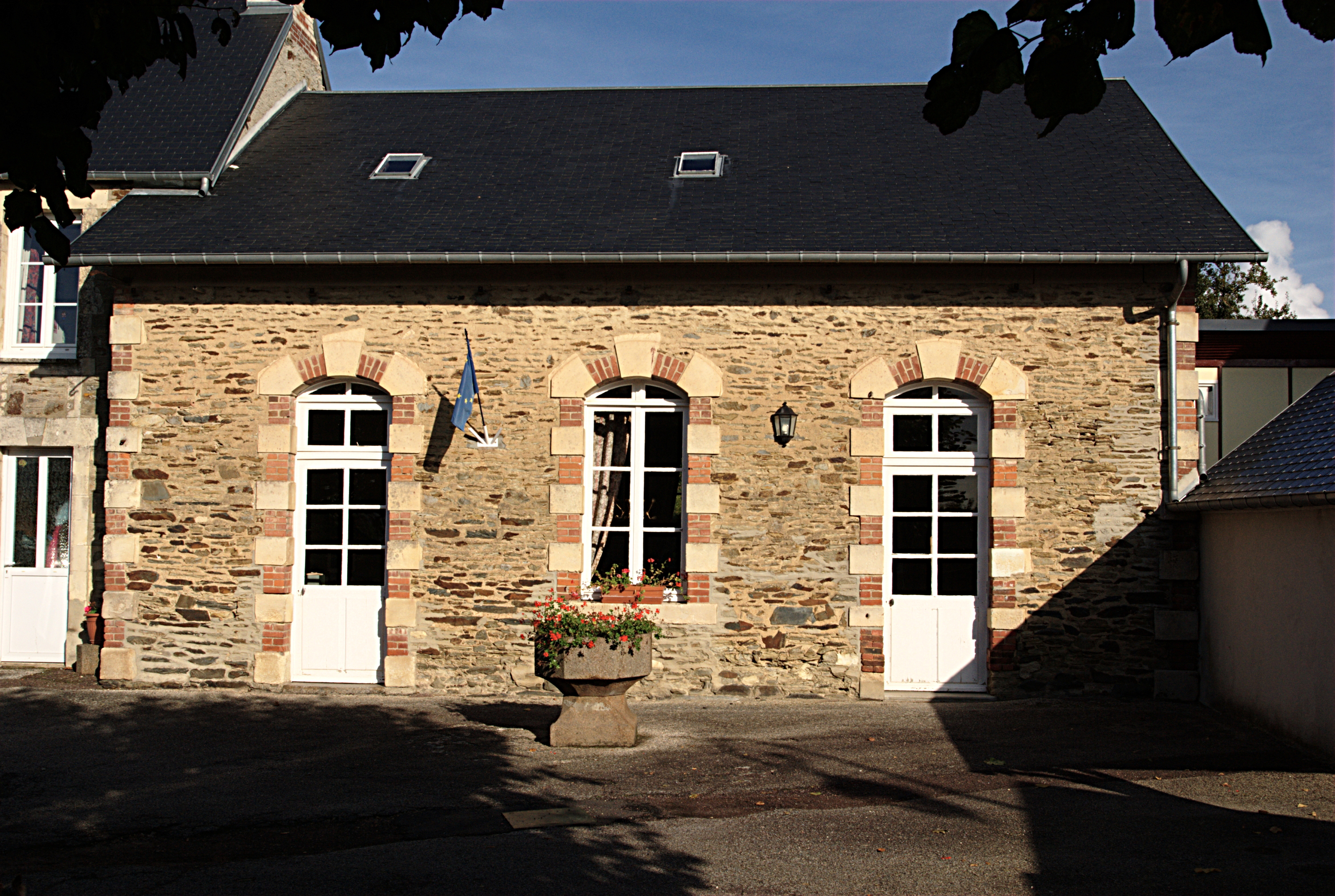 The Town hall of Longvillers, Calvados, French.